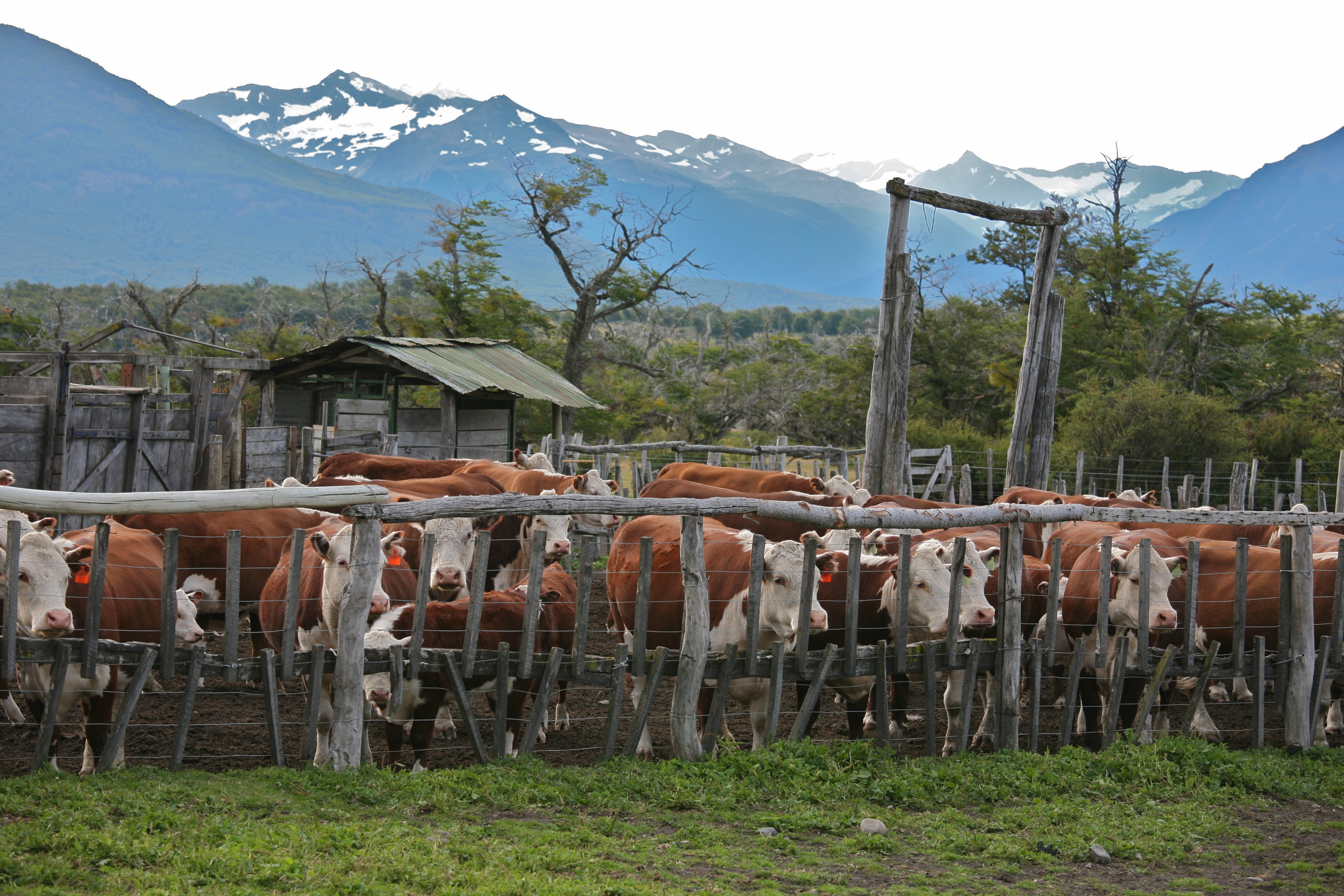 Nibepo - Aike Ranch, El Calafate